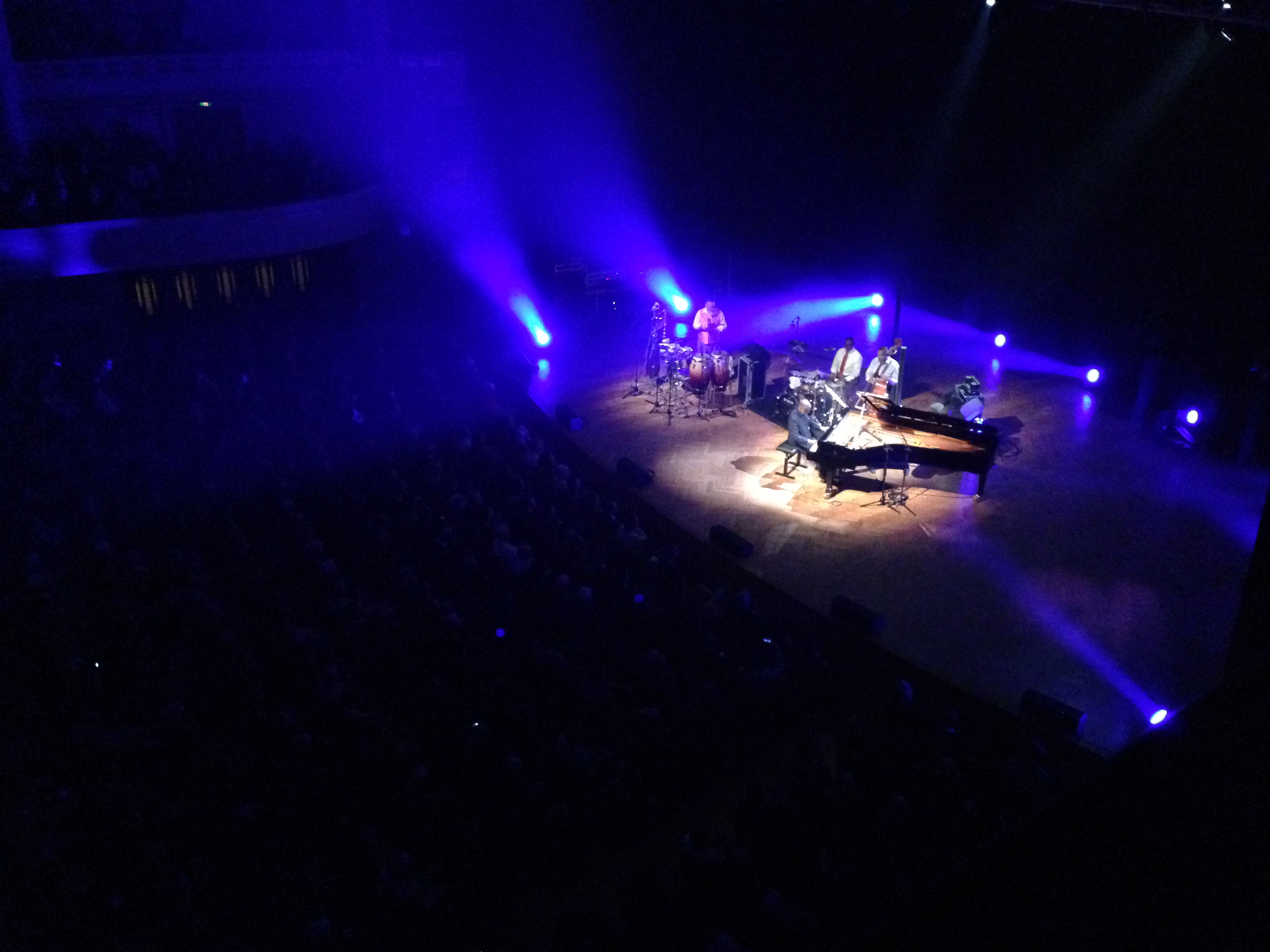 Jamal Ahmad at Bozar in Brussels, Belgium